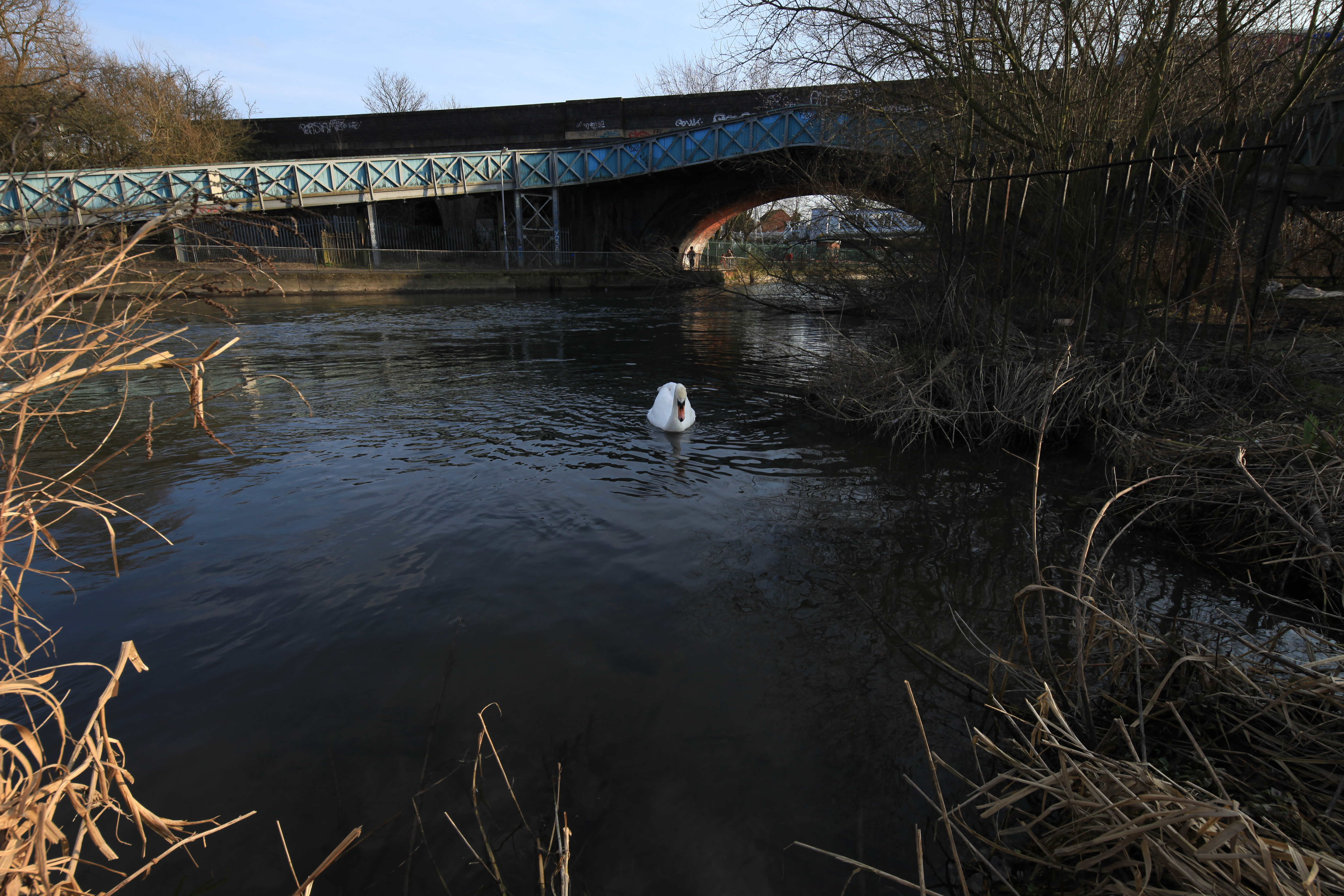 Kennet Mouth with bridge of the Great Western Main Line behind the footbridge.